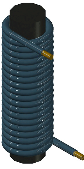 A simple electromagnet, consisting of an insulated wire wound around an iron core. When an electric current is passed through the wire, the iron core becomes a magnet, with a north pole at one end and a south pole at the other.